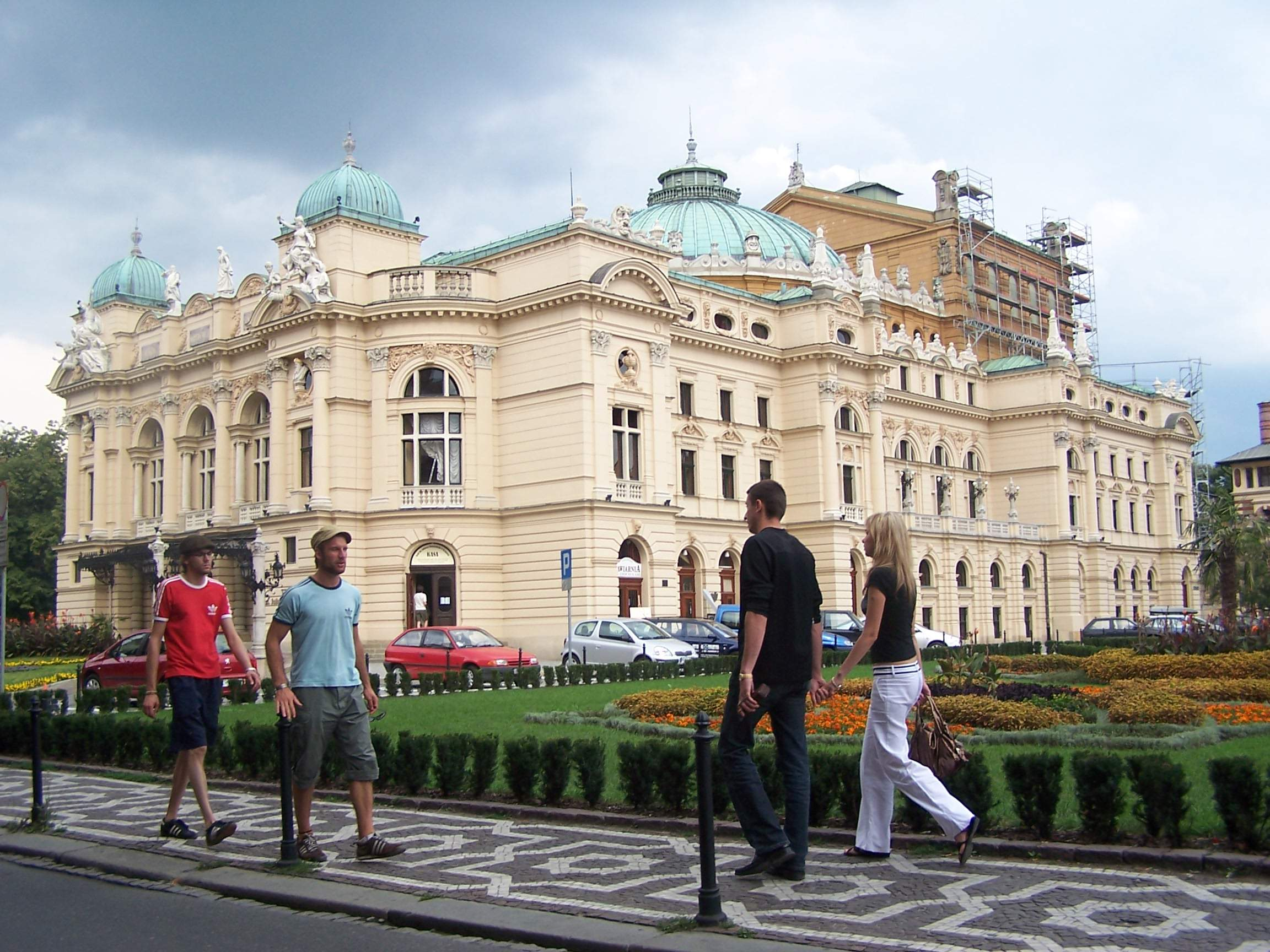 Cracow, Teatr Słowackiego (Slowacki Theatre)